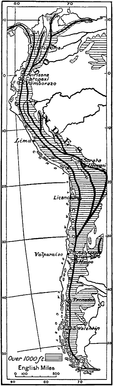 Topography of Andes.Illustration from 1911 Encyclopædia Britannica, article Andes.